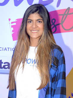 Ananya Birla at the Mpower Fest